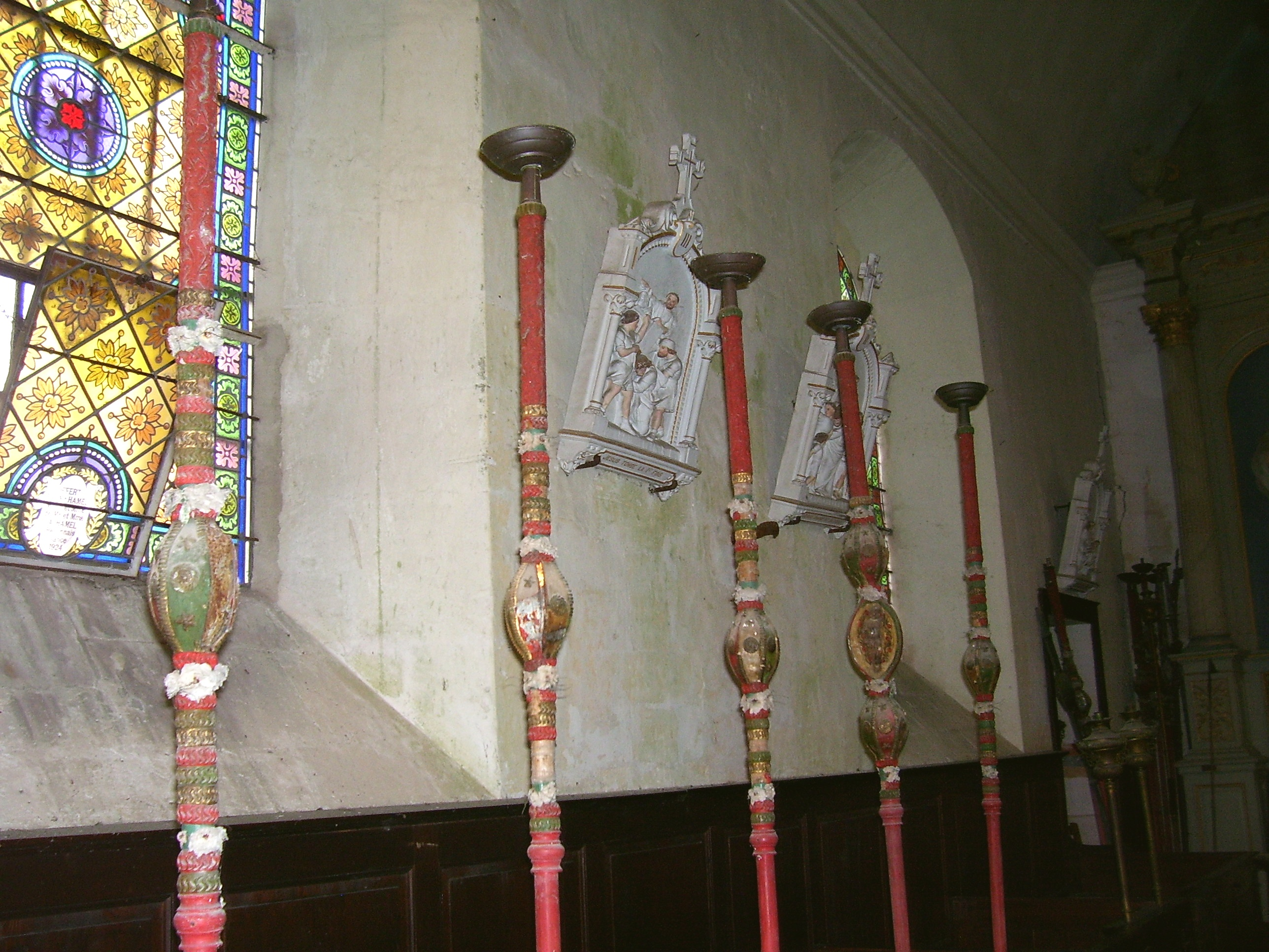 Candlesticks of the confrérie du charité (‚brotherhood of charity‘) in the church Notre-Dame of Neuville-sur-Authou (Eure, France).